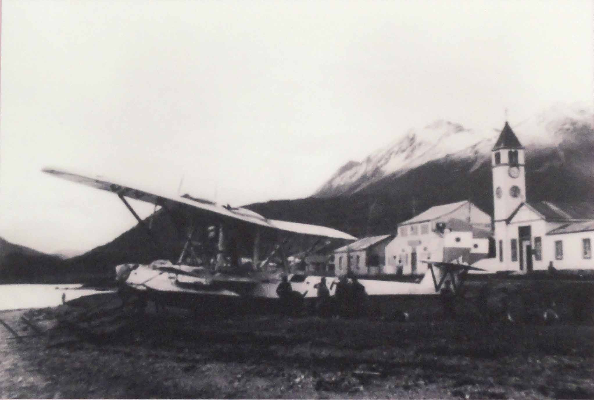 A Consolidated P2Y-3A flying boat at Ushuaia Naval Air Station